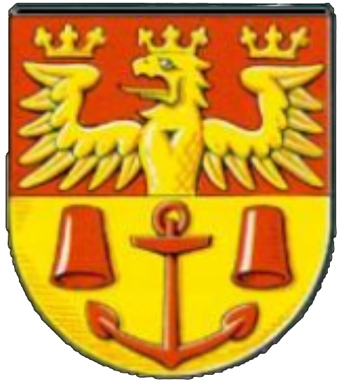 Coat of arms of Marienhafe (Lower Saxony, Germany)